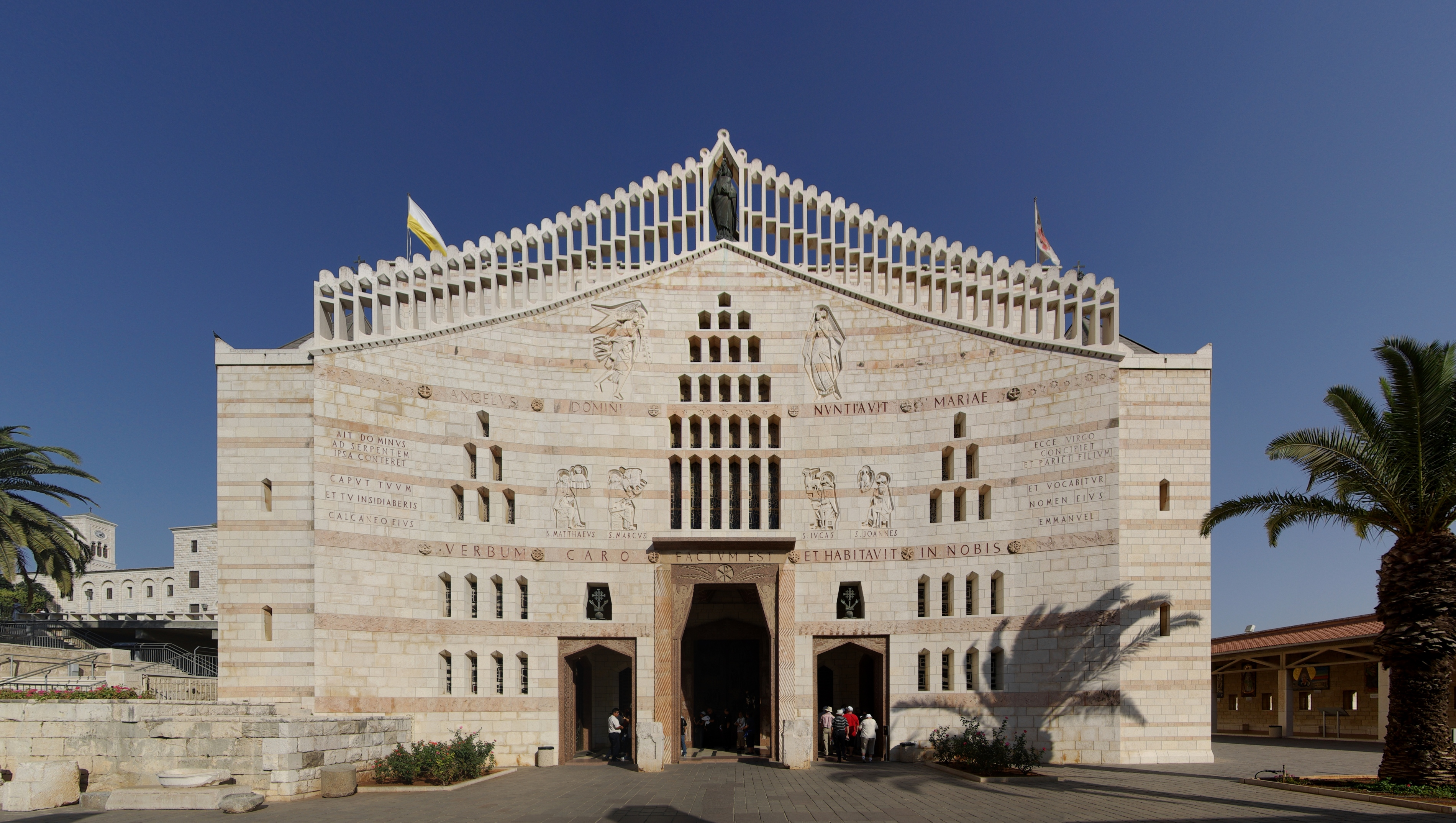 Nazareth, Basilica of the Annunciation